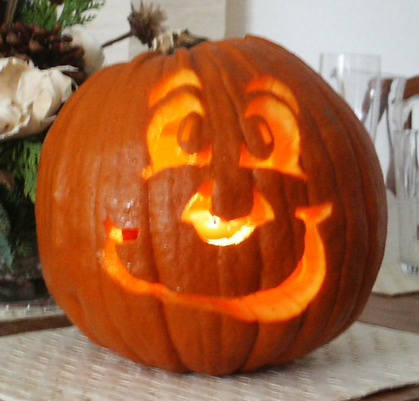 Photograph of a Jack-o-lantern Taken by me, Randy Oostdyk, and released under the GFDL.